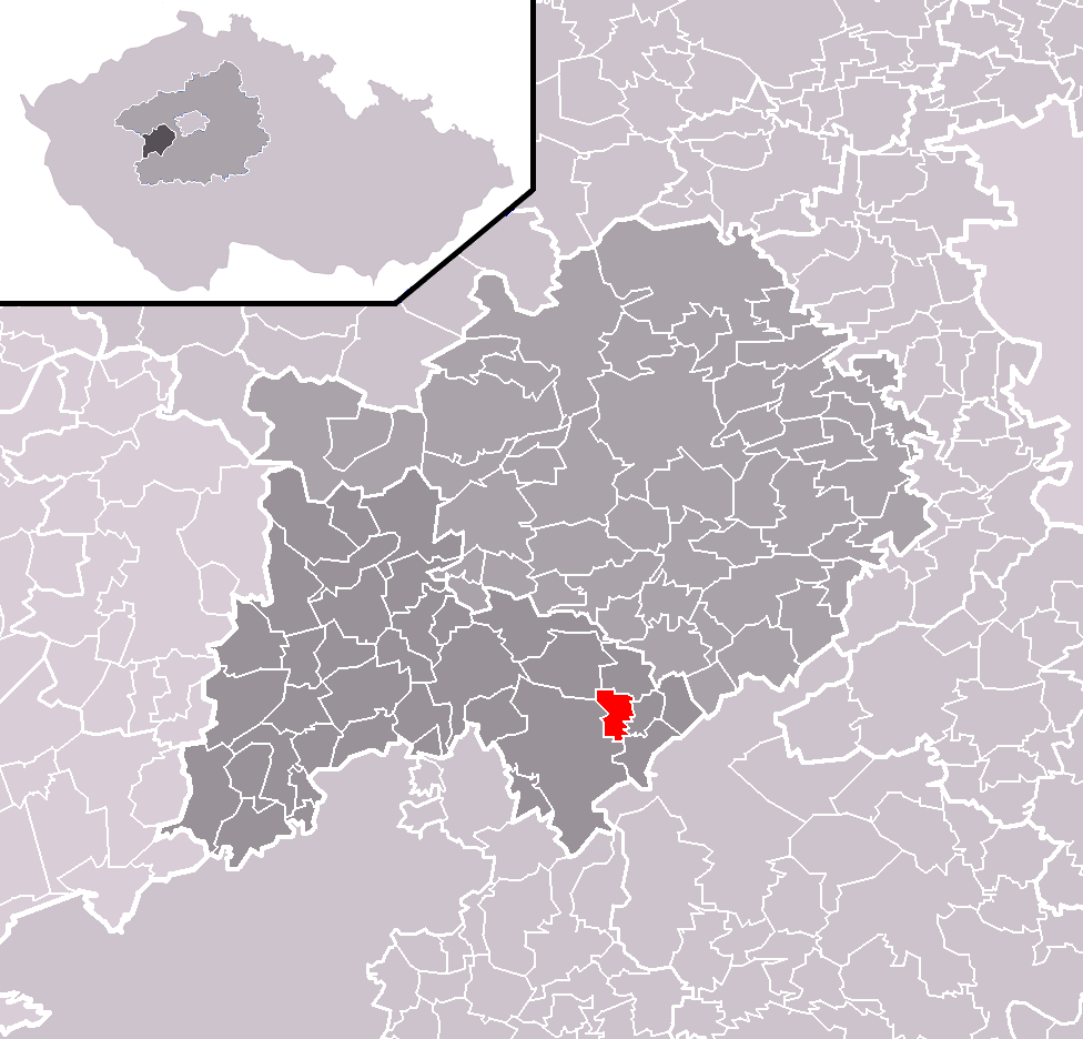 Location of Skřipel municipality within Beroun District and administrative area of Hořovice as a Municipality with Extended Competence.